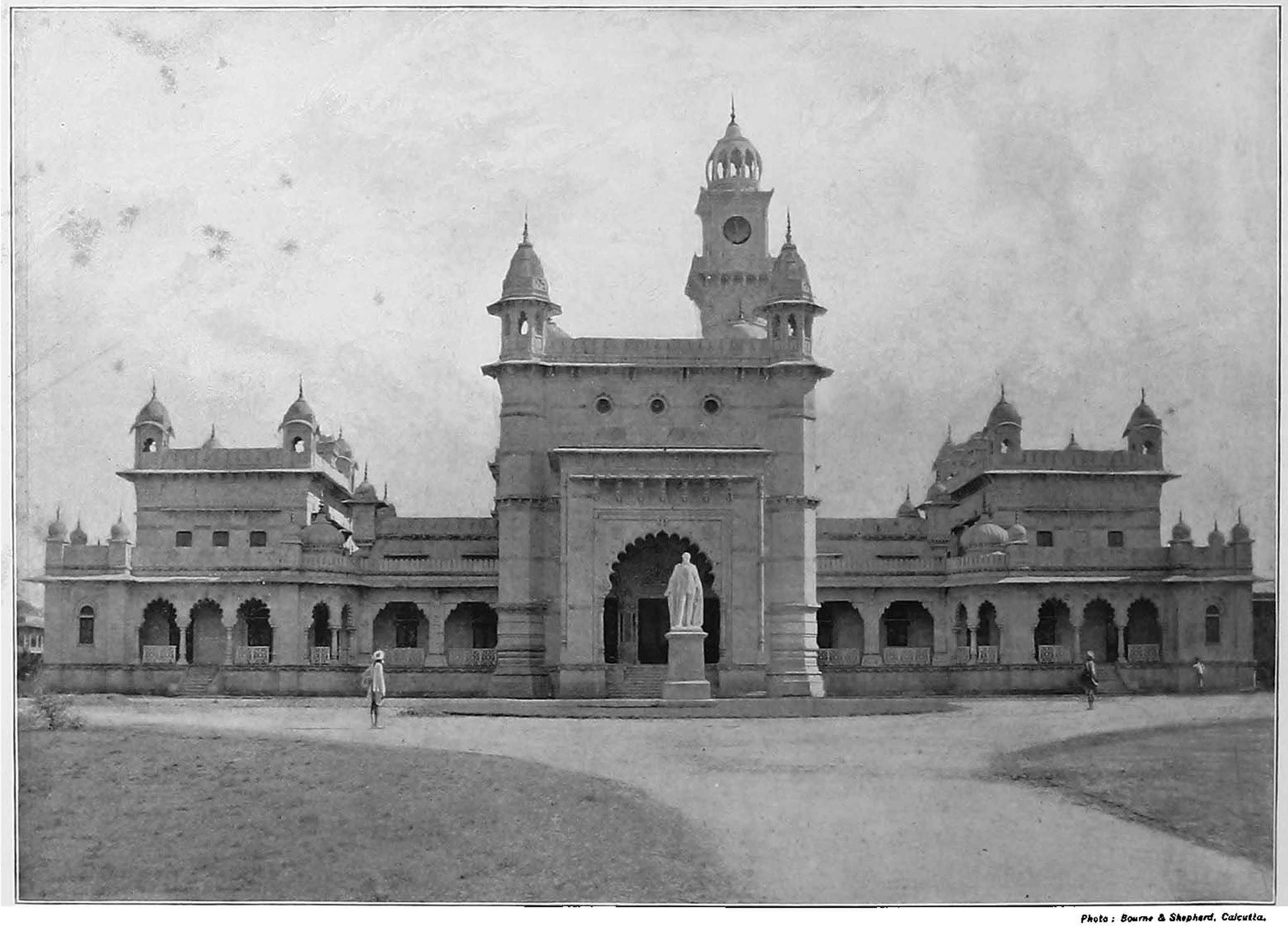 (Photographed before 1897) MAYO COLLEGE. AJMERE (now spelled as Ajmer). Original description: "This handsome specimen of modern Indian architecture was opened in 1875 by Lord Dufferin. then Viceroy of India. The College bears the name and commemorates the fame of another distinguished Viceroy, Lord Mayo, who fell by the hand of an assassin in the Andaman Inlands in the year 1872. The College is devoted to the education of young Rajput Princes, and has about seventy students. whose ages vary from eight to eighteen. The central building is of white marble, and is surrounded by a number of subsidiary buildings in which the pupils and their servants reside."